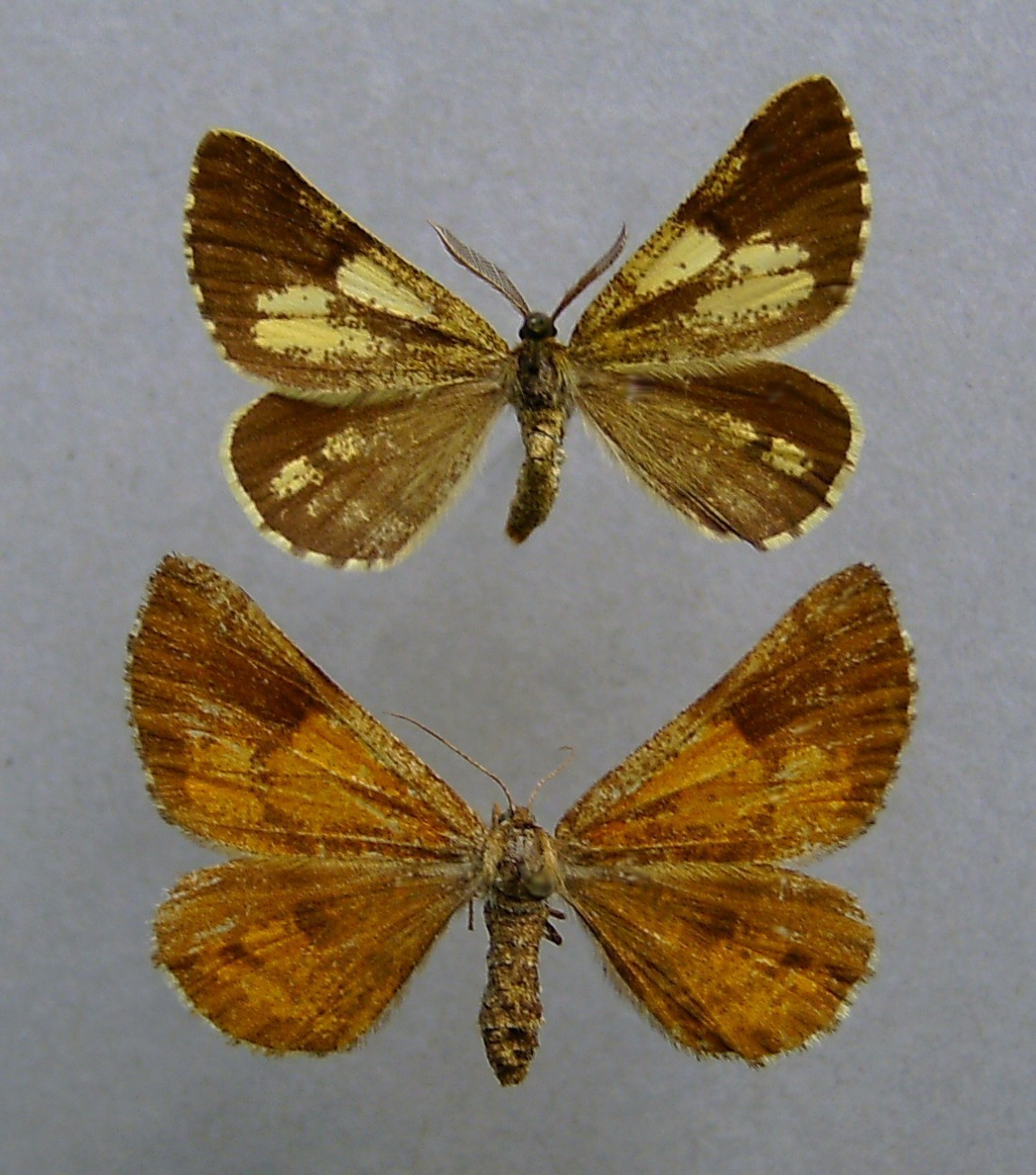 Above Bupalus piniaria male, Berlin-Gatow, GermanyBelow: Bupalus piniaria female, Berlin-Wedding, Germany